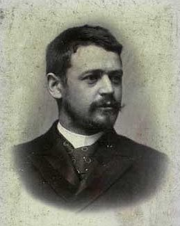 Anders Jensen Bundgaard (1864-1937), Danish sculptor